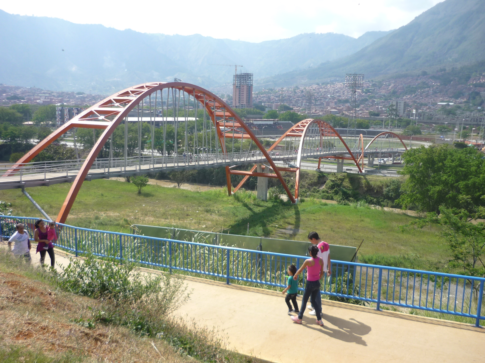 Puente localizado al frente de la unidad deportiva de Bello-Aantioquia.